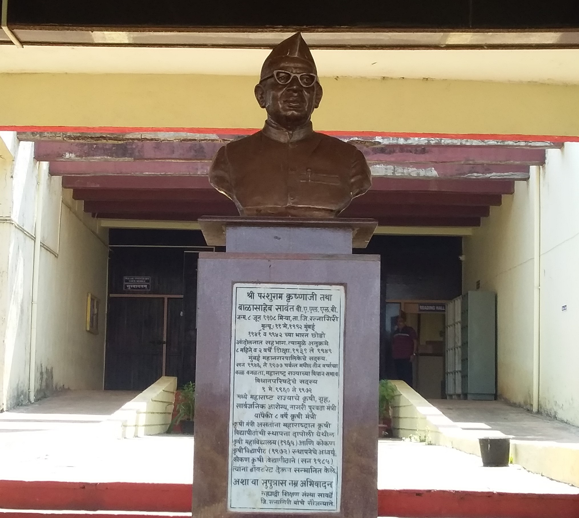 Statue of Balasaheb Sawant at Dr. Balasaheb Sawant Konkan krishi vidyapeeth, Dapoli, Maharashtra, India